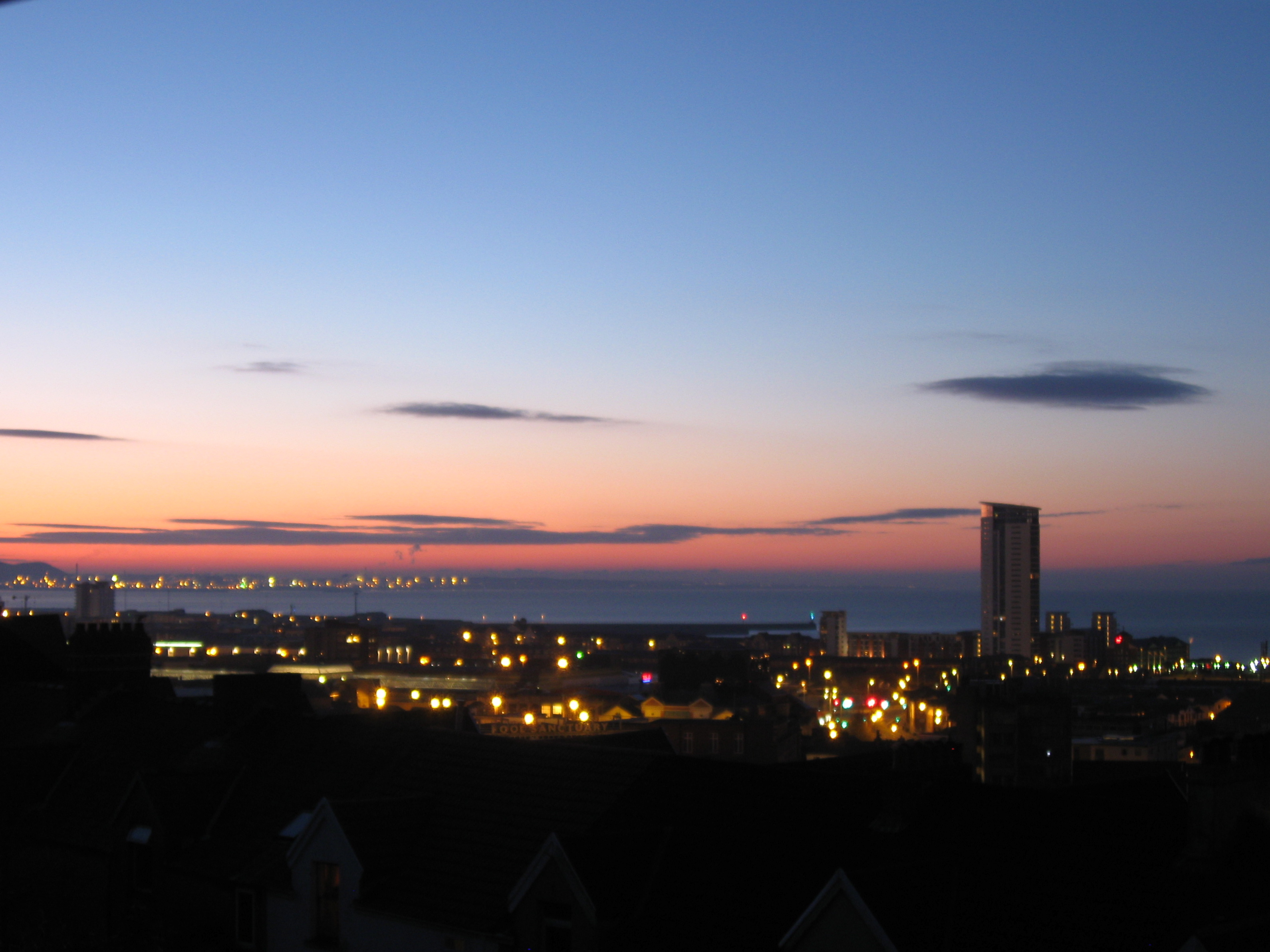 The Tower of the Meridian Quay, in the Swansea skyline, SA1, South Wales. Taken at dawn in March. Can also be found here on Flickr.